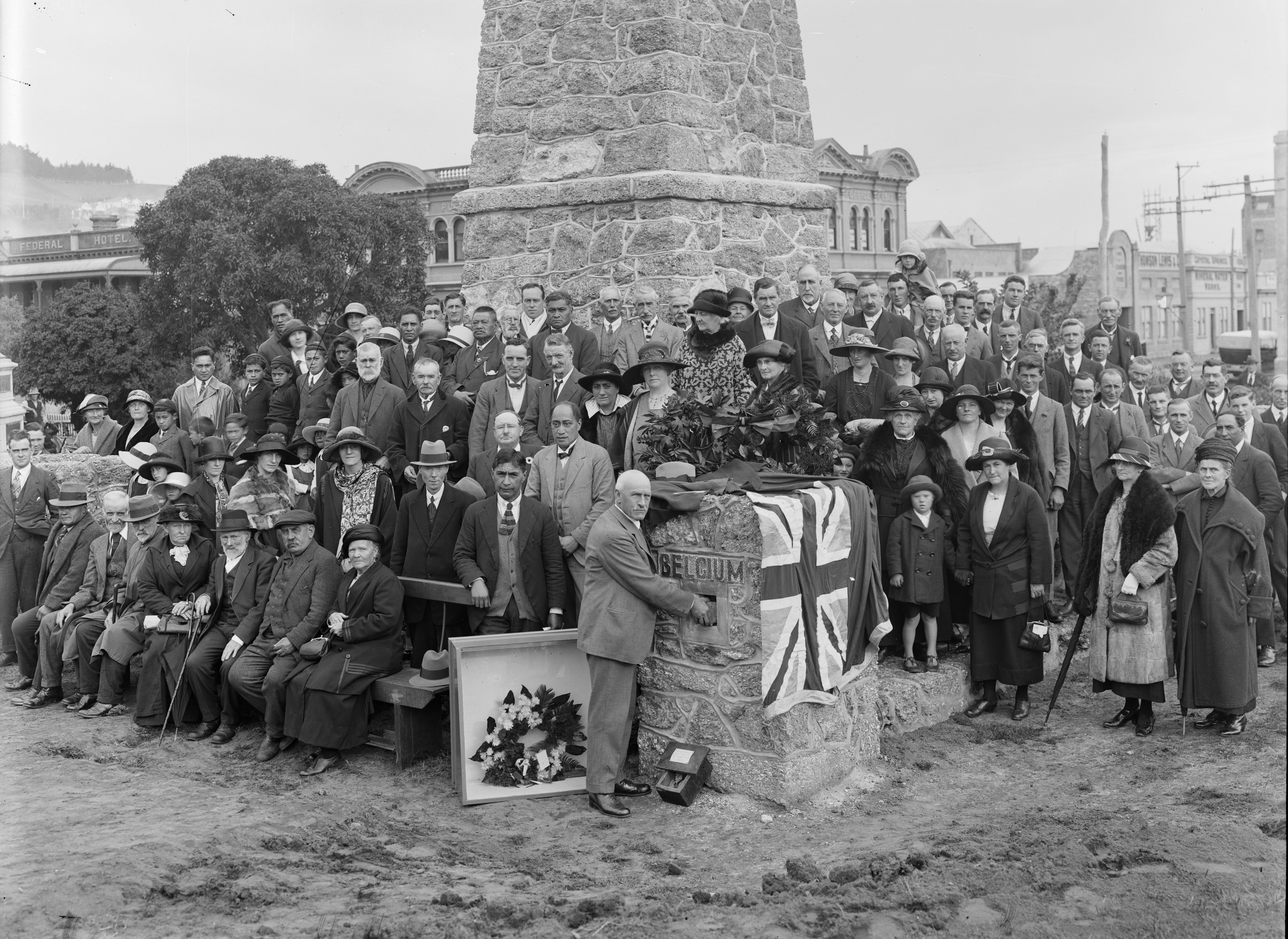 Mayor of Wanganui, Mr Hope Gibbons, placing soil from the battlefields of Belgium in the Wanganui Maori War Memorial on Anzac Day. Shows a crowd grouped around the monument. Photograph taken 25 April 1925 by Frank J Denton.